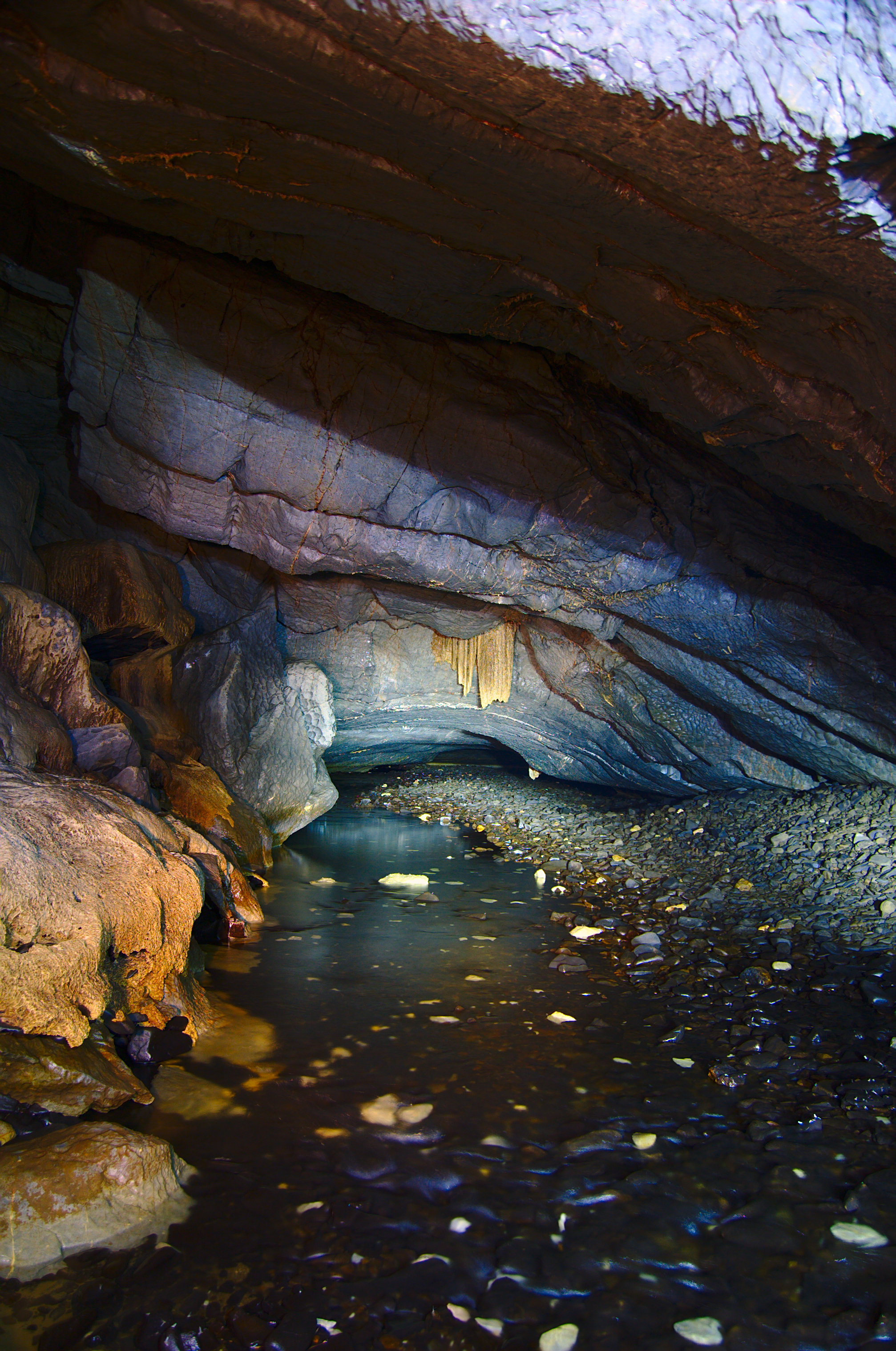 Creek Bílá voda in Povodňová chodba of Stará Amatérská jeskyně cave